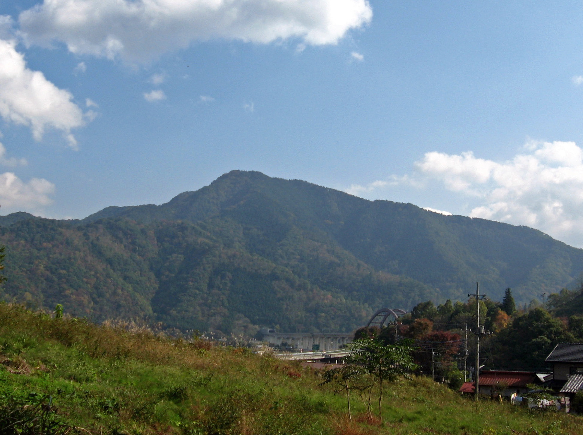 Mount Kuki (Kuki-yama) as seen from the northwest.